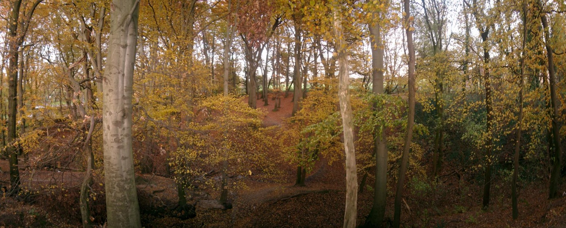 Stemmkewald in Bövinghausen, Dortmund, Germany (originally from )